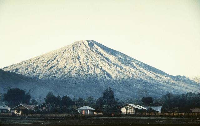 Rinjani volcano on Lombok Island is one of Indonesia's highest volcanoes, rising to 3726 m. As seen here from the village of Sembalum Lawang to the NE, Rinjani has a symmetrical profile, but its western side is truncated by the 6 x 8.5 km, oval-shaped Segara Anak caldera. Historical eruptions have been recorded since 1847 from Gunung Barujari, a pyroclastic cone within the caldera.